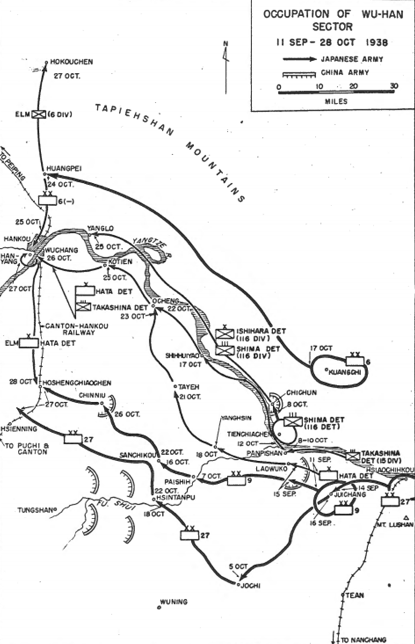 The Japanese 11th Army makes its final assault on Wuhan. (Operations of the 2nd Army in the north are omitted.)